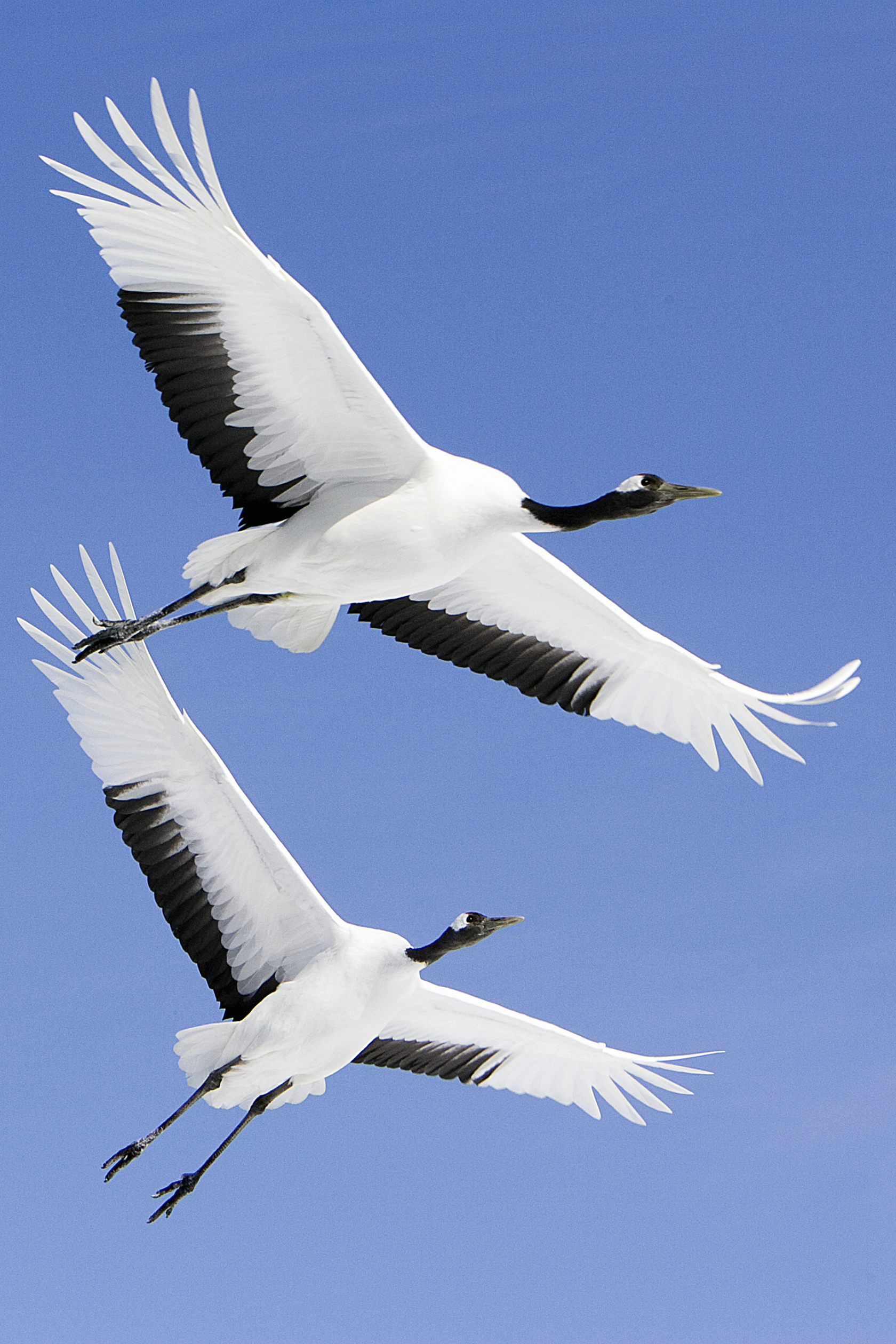 Grus japonensis flight at Akan International Crane Center